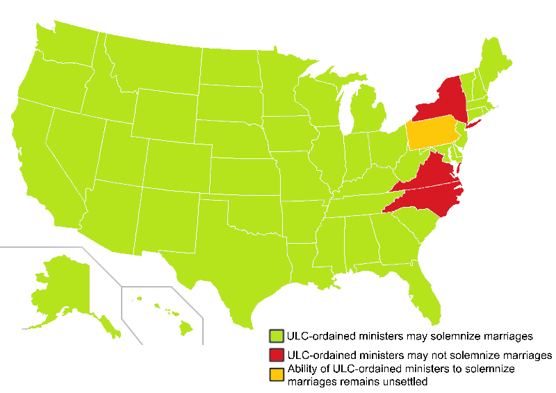 Map of states where ULC ordination is legally sufficient to solemnize marriages.